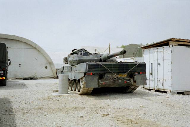 Dutch Leopard 2 tank photographed in the former Yugoslavia.